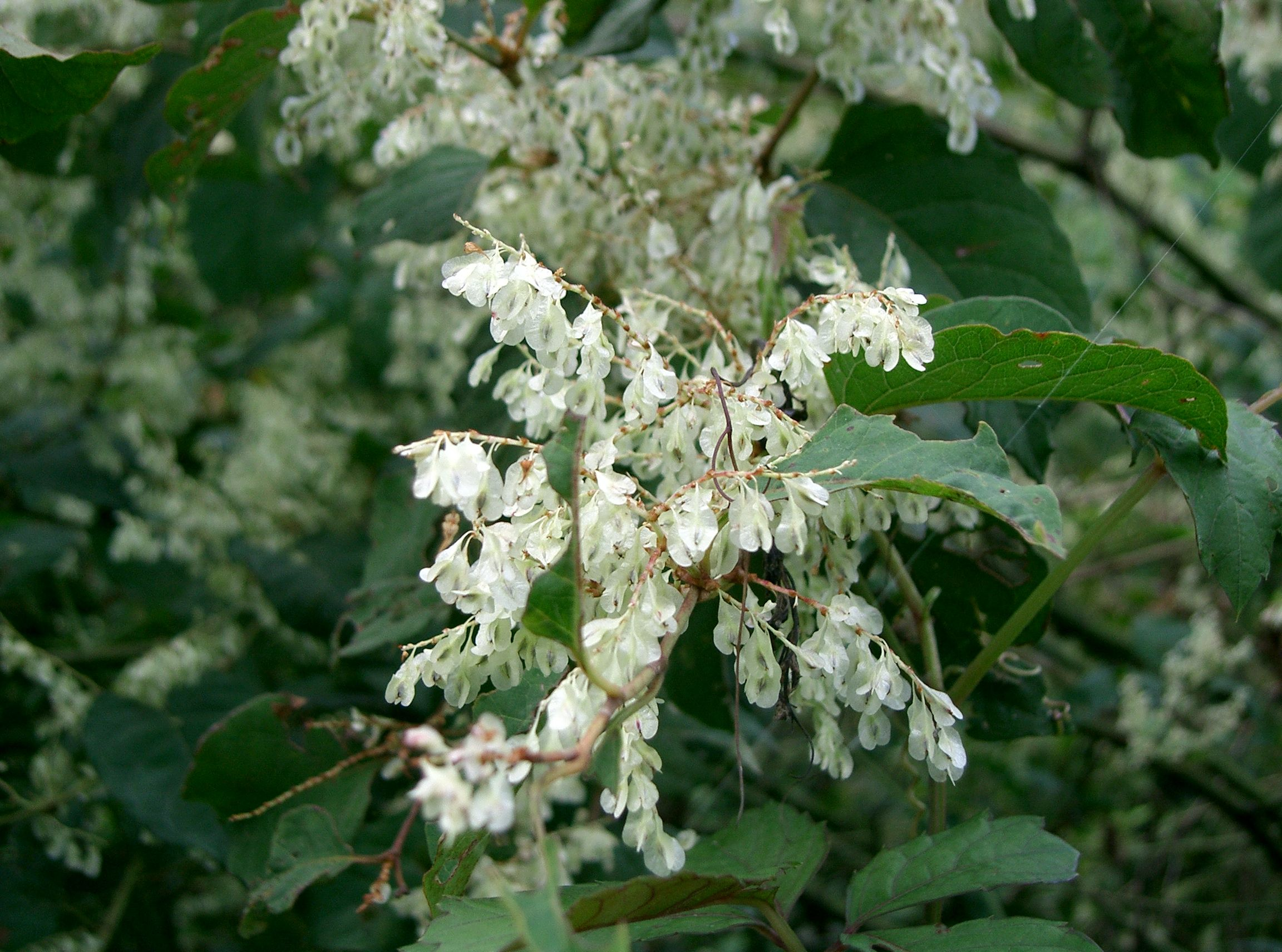 Japanese Knotweed Reynoutria japonica, Osaka-fu, Japan